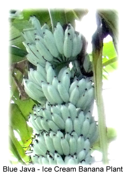 Tastiest Banana variety "Krie" , "Cenizo", "ice cream banana"